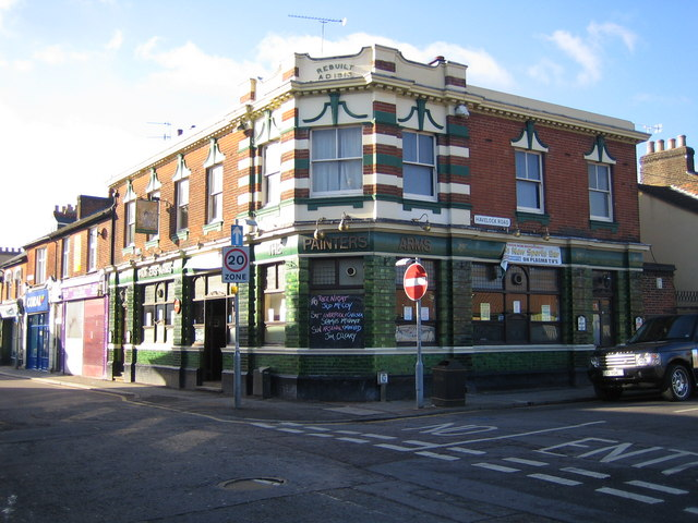 Luton: The Painters Arms This fine Grade II listed pub is in the High Town Road Conservation Area at the junction with Havelock Road. The writing in the pediment on the corner reads: REBUILT A D 1913